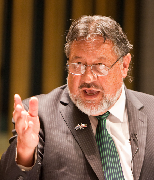 New Zealand's Maori Affairs Minister Dr. Pita Sharples announces New Zealand's endorsement of the United Nations Declaration on the Rights of Indigenous Peoples.